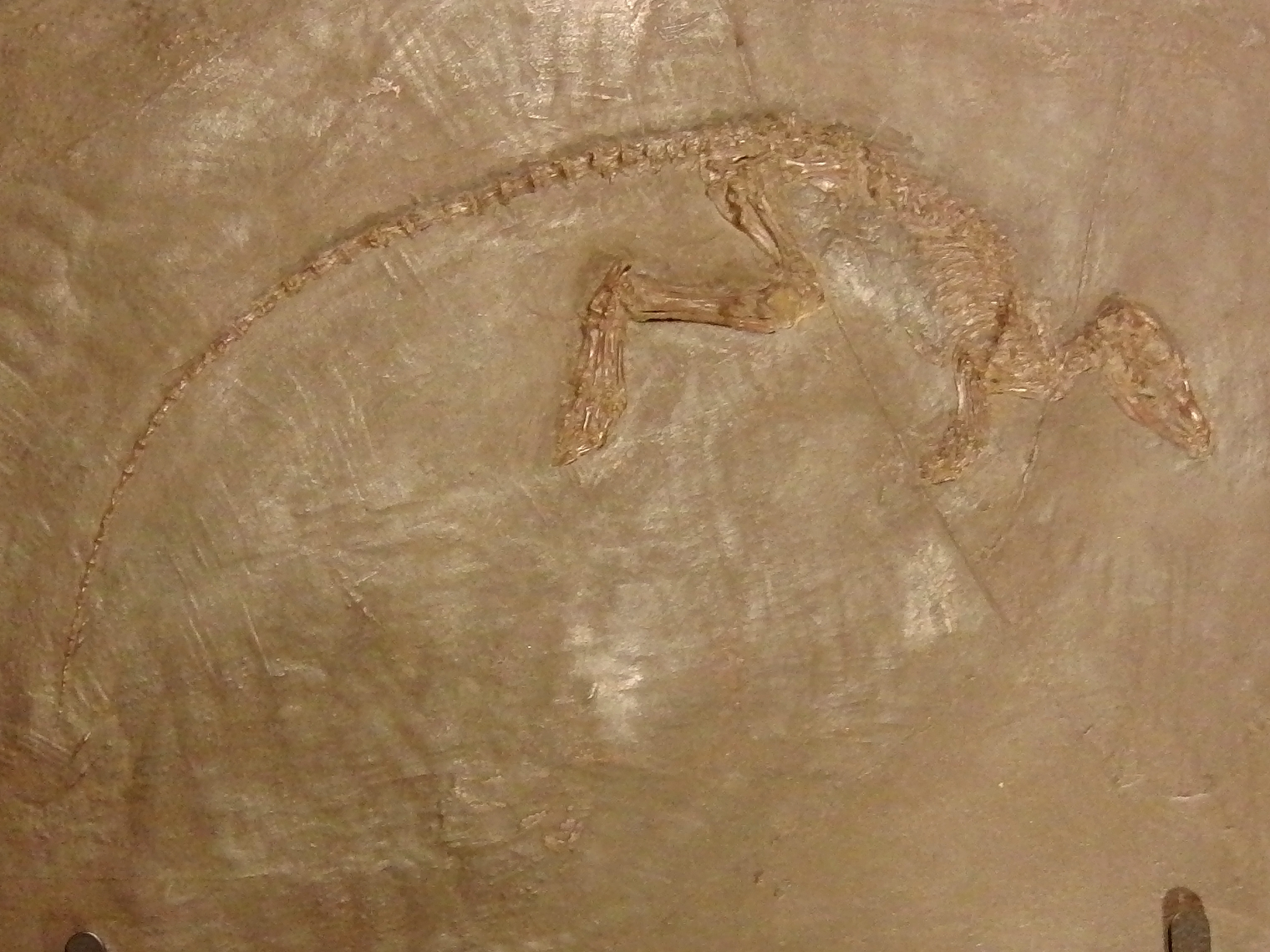 Fossil of Leptictidium nasutum. Exhibit in the National Museum of Nature and Science, Tokyo, Japan.